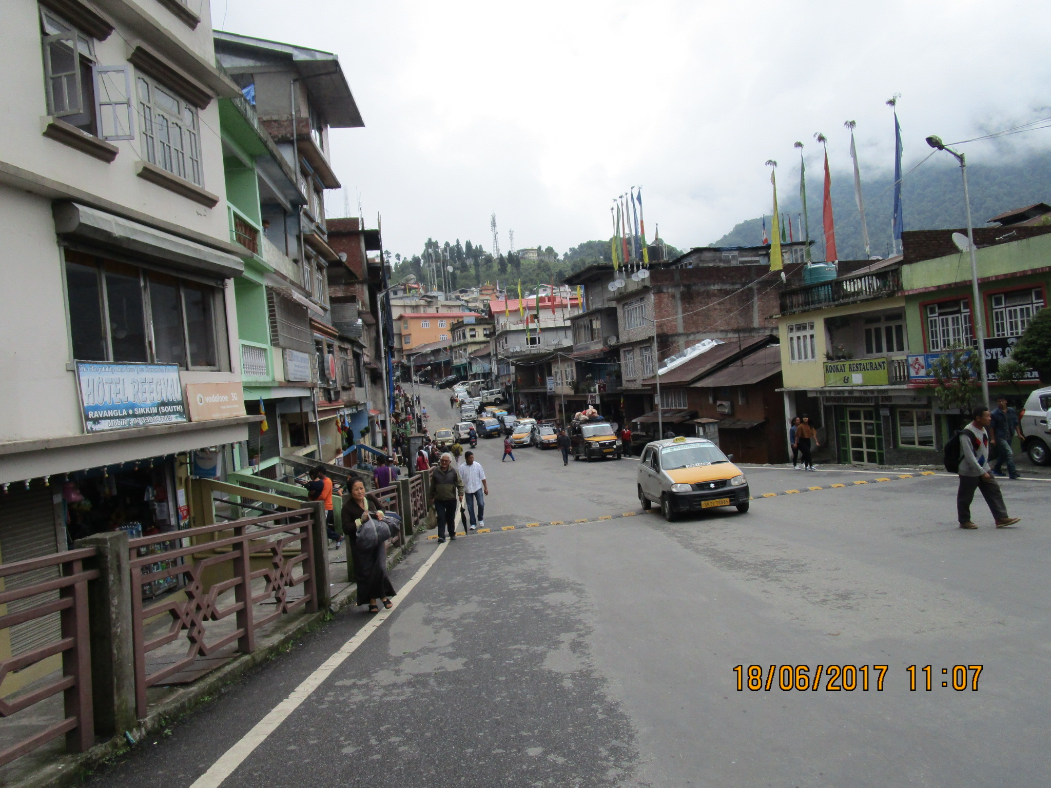 Marketplace in Ravangla